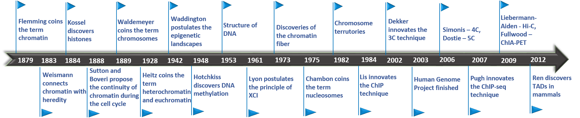 A more focused timeline for chromatin studies. Ref: Tzelepis, I., Martino, M., & Göndör, A. (2017). Chapter 1 - A Brief Introduction to Chromatin Regulation and Dynamics. In A. Göndör (Ed.), Chromatin Regulation and Dynamics (pp. 1–34). Boston: Academic Press.